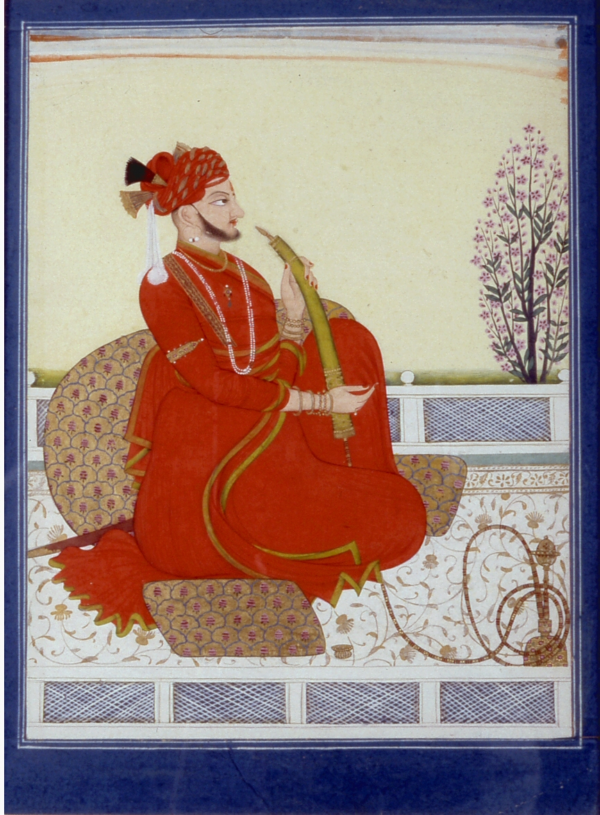 The inscriptions on the back, in both Takri and Devanagari scripts, declare this to be a portrait of Raja Kirat Prakash of Sirmur, which by Pahari standards was a large state. With its capital at Nahan, it played an active role in 18th-century regional politics. Kirat Prakash ruled from 1754 to 1770 and was an able and valiant ruler. Although he fought in several wars, he was also responsible for ending the bloody generation-old feud with the state of Bashahr. This portrait, however, was not painted locally, as is clear from the inscriptions. Firstly, as pointed out by Ohri, Takri script was not prevalent in Sirmur. Secondly, if done locally, the ruler's state is not likely to be mentioned. Thirdly, the style of the picture definitely shows the hand of an artist trained in Kangra workshop. It may be emphasized that Sirmur had an amicable relationship with Kangra until 1789, when hostilities began. Kirat Prakash's second son, Dharam Prakash, had a wife who was a sister of Samsar Chand of Kangra. Dharam Prakash did succeed to the throne in 1789 but was killed by his brother-in-law in 1793.